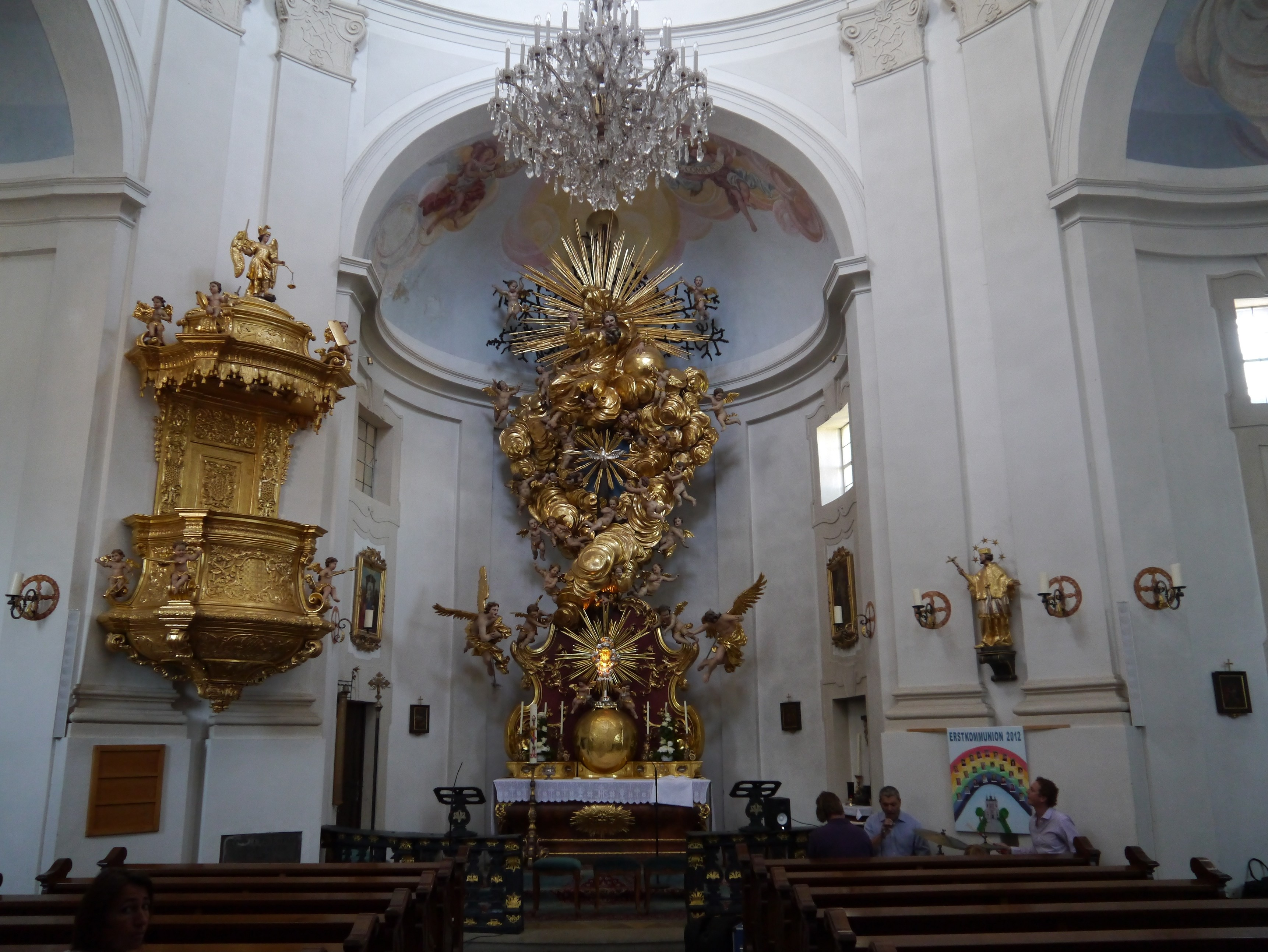 Choir of Christkindl (Baby Jesus) Pilgrimage Church, Steyr, Upper Austria